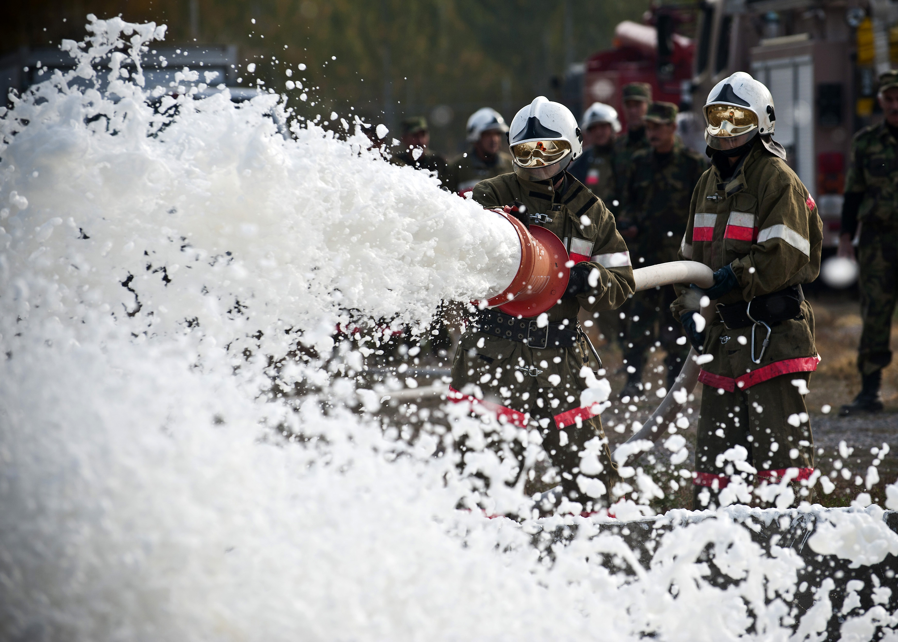 Kyrgyz Republic firefighters extinguish a controlled fire during a demonstration at the Transit Center at Manas, Kyrgyzstan, Oct. 16, 2012. This demonstration was part of a continued initiative to exchange information and strengthen partnership.